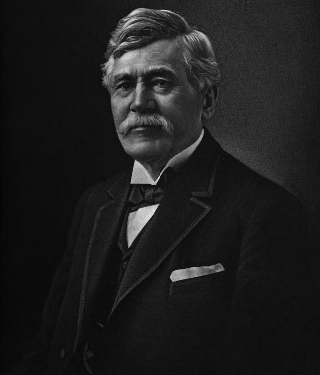 Abraham L. Keister (Pennsylvania Congressman)